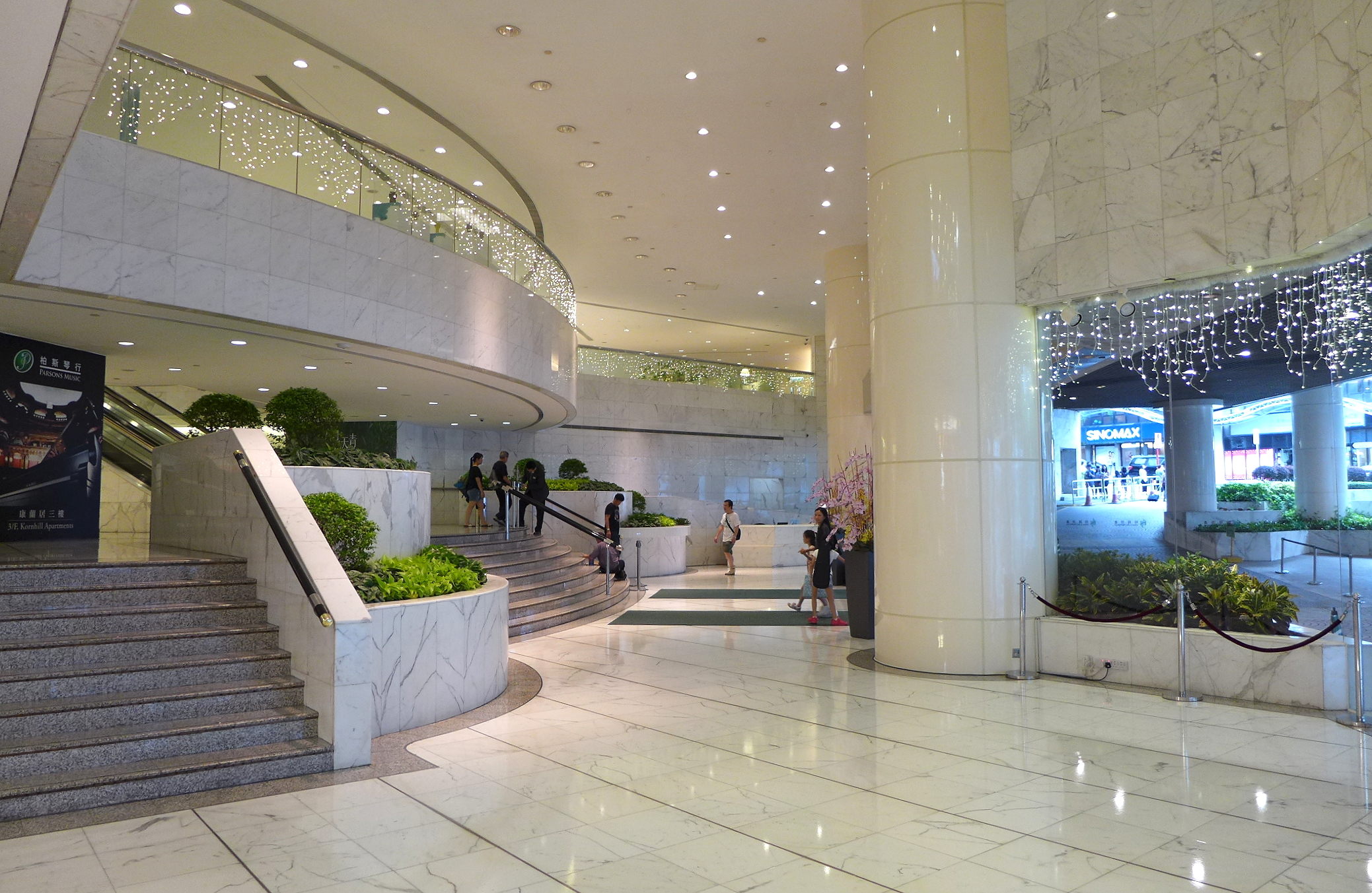 Kornhill Apartment Lobby